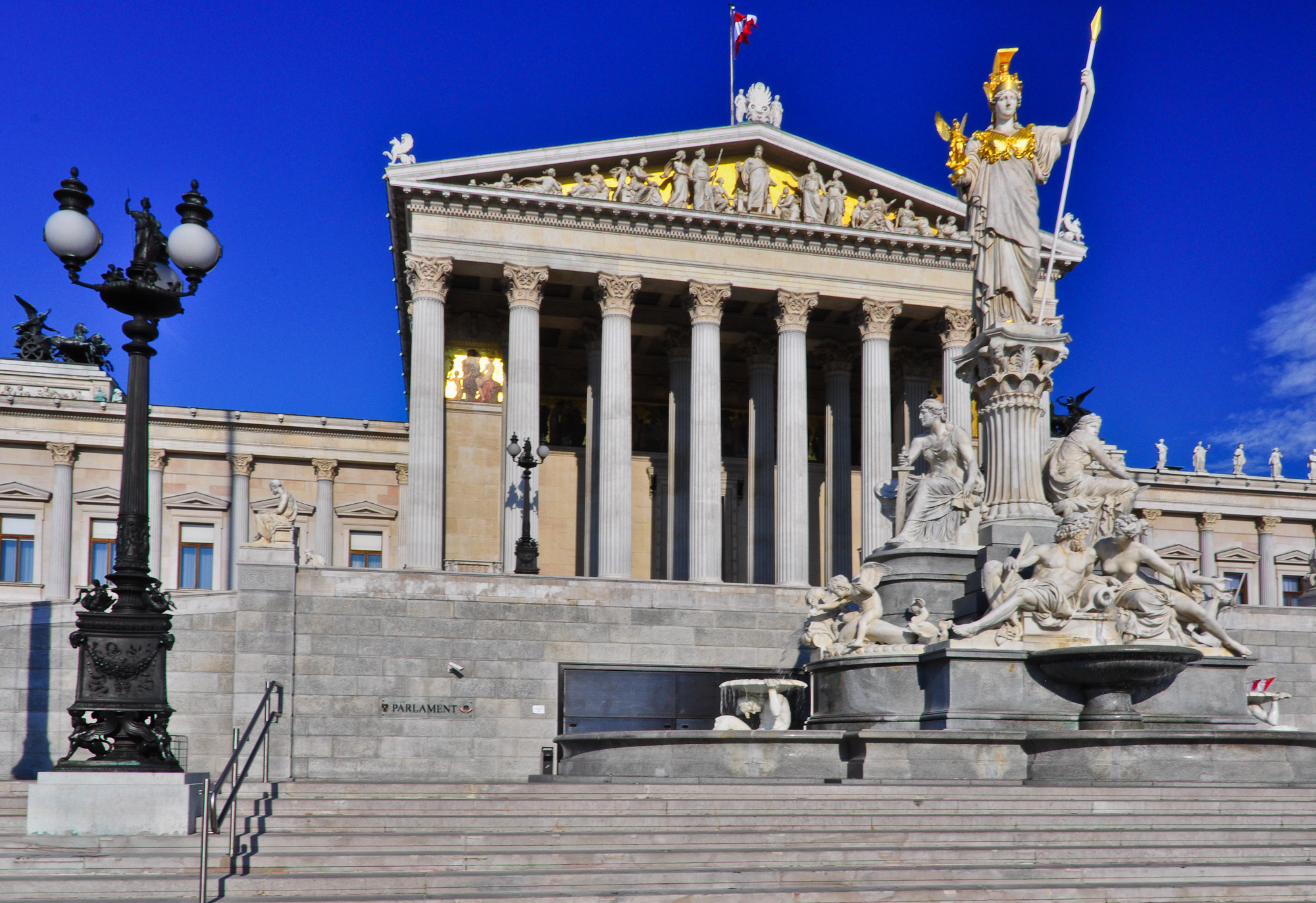 Austria, Vienna, Austrian Parliament, Parliament Building at Ringstraße